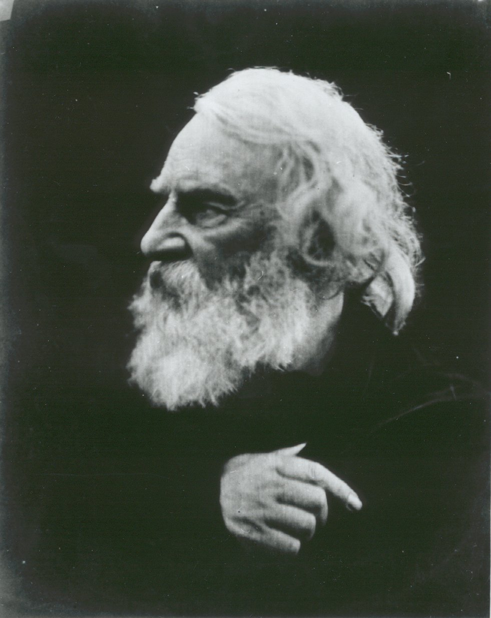 Henry Wadsworth Longfellow on the Isle of Wight, England in 1868 by Julia Margaret Cameron (1815 – 1879)